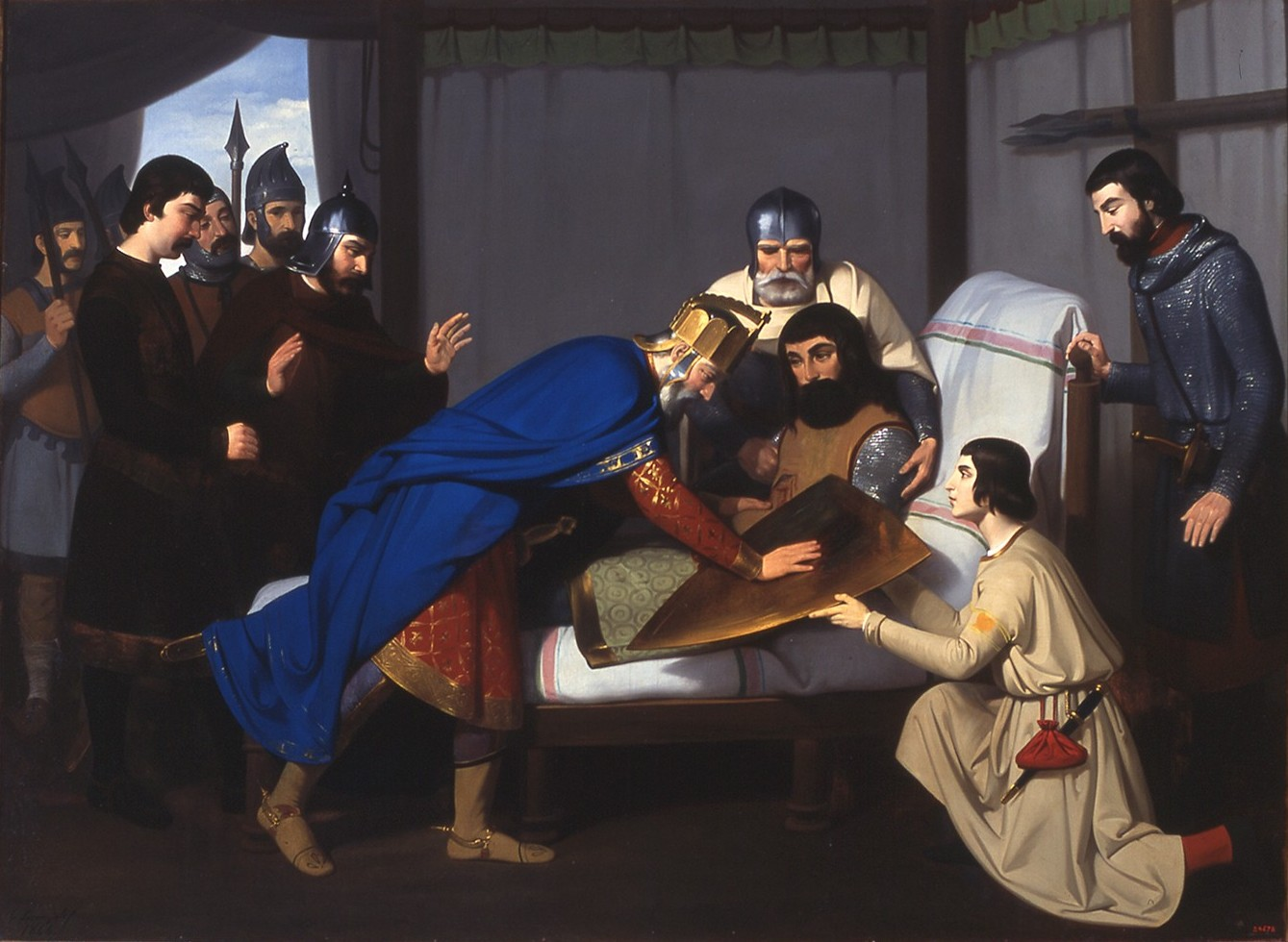 Origin of the Barcelona county coat (1843-1844), óleo de Claudi Lorenzale, 121 x 164 cm, (inv. 277)